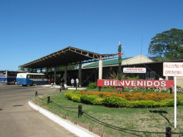 Terminal bus Artigas